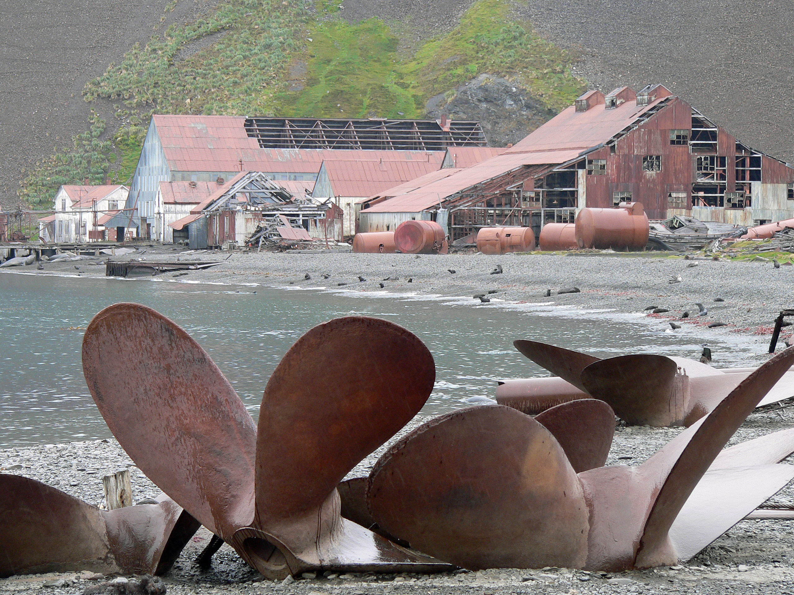 Ruins of the Stromness whaling station